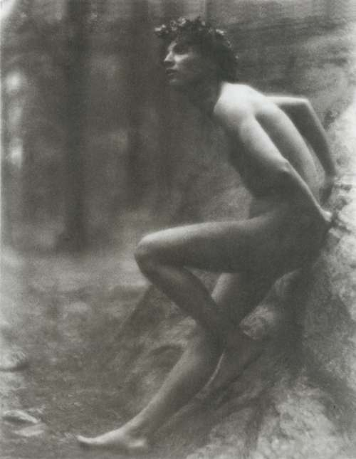 F. Holland Day, Youth leaning on a stone, 1907. Model is the Italian Nicola Giancola.